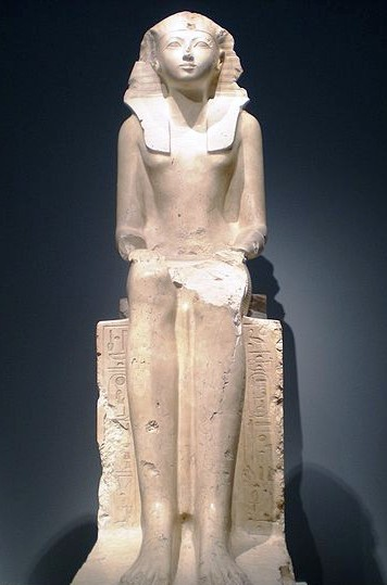 Hatshepsut, Eighteenth dynasty of Egypt, c. 1473-1458 B.C. Indurated limestone sculpture at the Metropolitan Museum of Art, New York City. Hatshepsut is depicted in the clothing of a male king though with a feminine form. Inscriptions on the statue call her "Daughter of Re" and "Lady of the Two Lands." Most of the statue's fragments were excavated in 1929, by the Museum's Egyptian Expedition, near Hatshepsut's funerary temple at Deir el-Bahri in Thebes. The lower part of the statue was acquired by Karl Richard Lepsius and taken to Berlin in 1845. The head, left forearm, and parts of the throne were excavated by the Museum, 1926-27 season and acquired in the division of finds. The Berlin fragment was acquired by the Museum in an exchange in 1929.